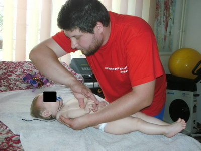 physical therapist